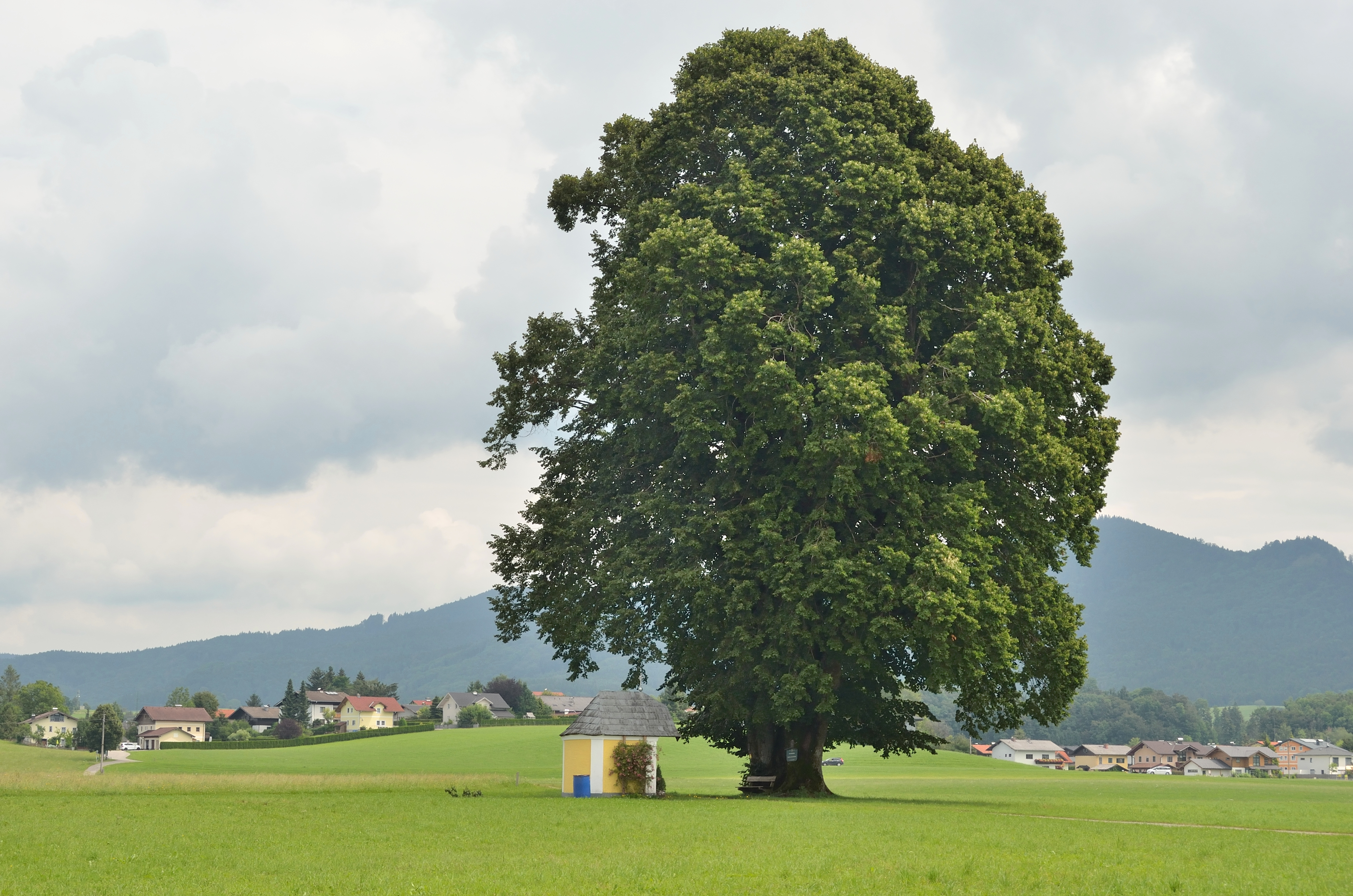 Two tilia at Kirchfenning (Linden in Kirchfenning), municipality Henndorf, Salzburg, are declared a natural monument. Underneath there is the Hiasnbauerkapelle, a wayside chapel. This media shows the natural monument in Salzburg with the ID NDM00084.